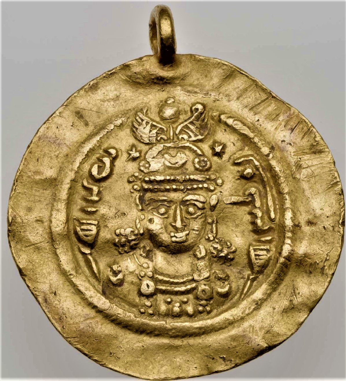 Obverse: Bust of Boran, wearing round crown surmounted by spreading wings enclosing crescent and globe; earrings, necklace, crescent and star on robe at shoulder; grenetis. Inscribed. Reverse: Standing figure of Boran, wearing crown; crescent and star on either side; grenetis. Inscribed.